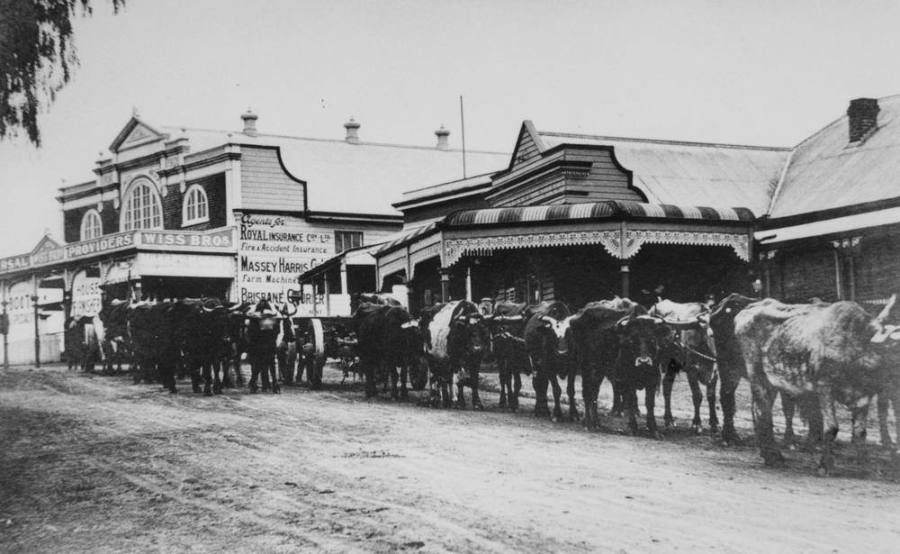 Bullock team in George Street, Kalbar, 1915 The bullock team is in George Street outside the Fassifern Hotel and Wiss Bros shop. (Description supplied with photograph.).